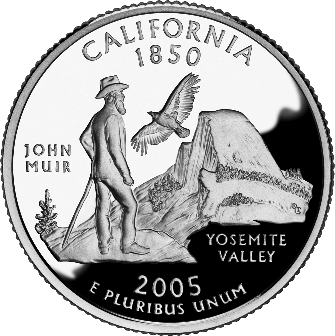 Removed background, cropped, and converted to PNG with Macromedia Fireworks.